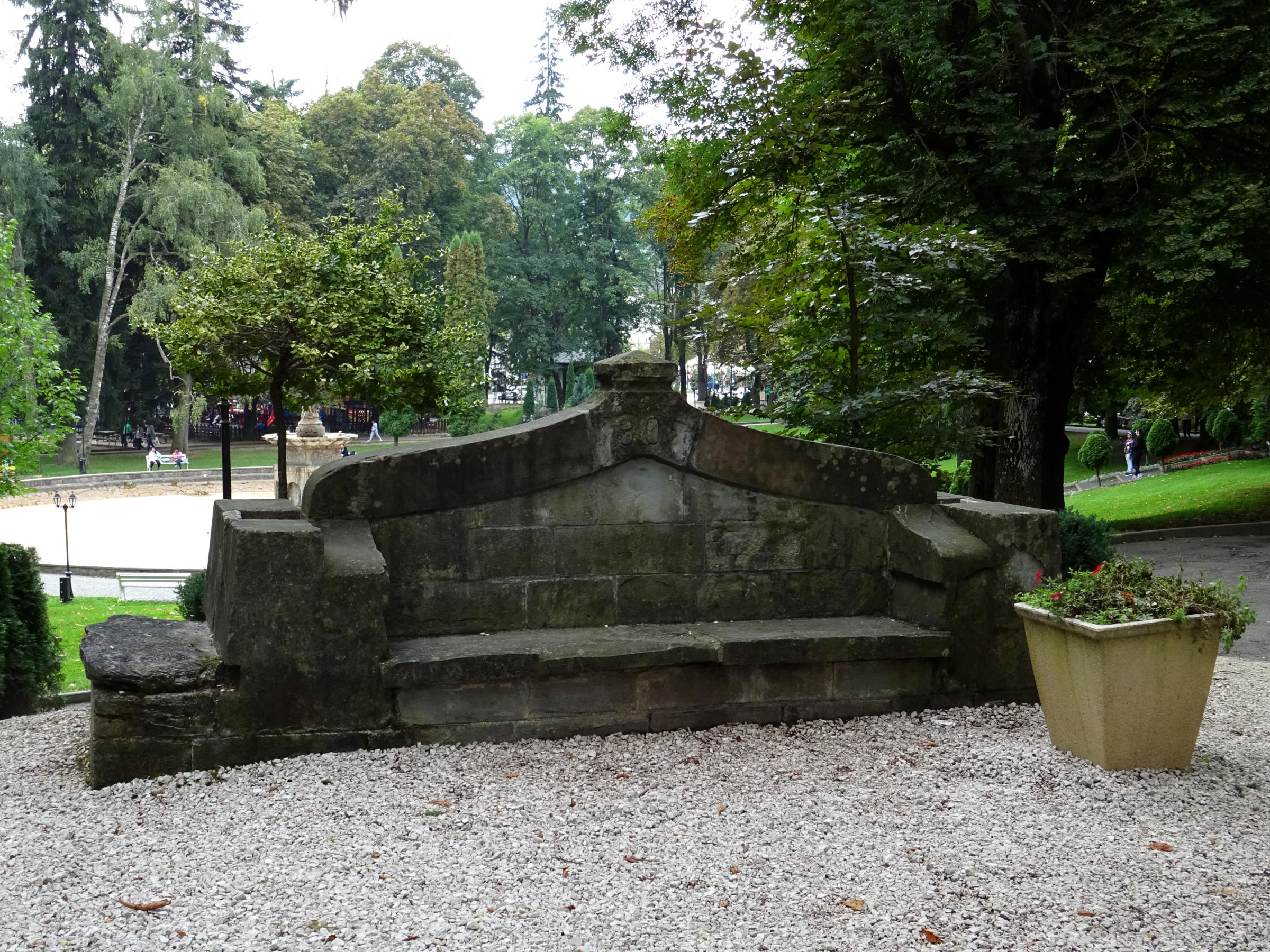 The "royal bench" (1905) in Dimitrie Ghica park in Sinaia, Romania